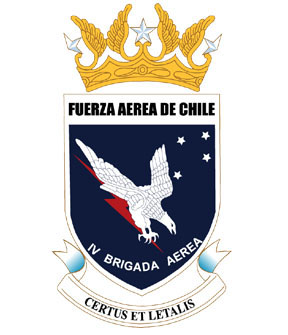 4th Aviation Brigade FACH